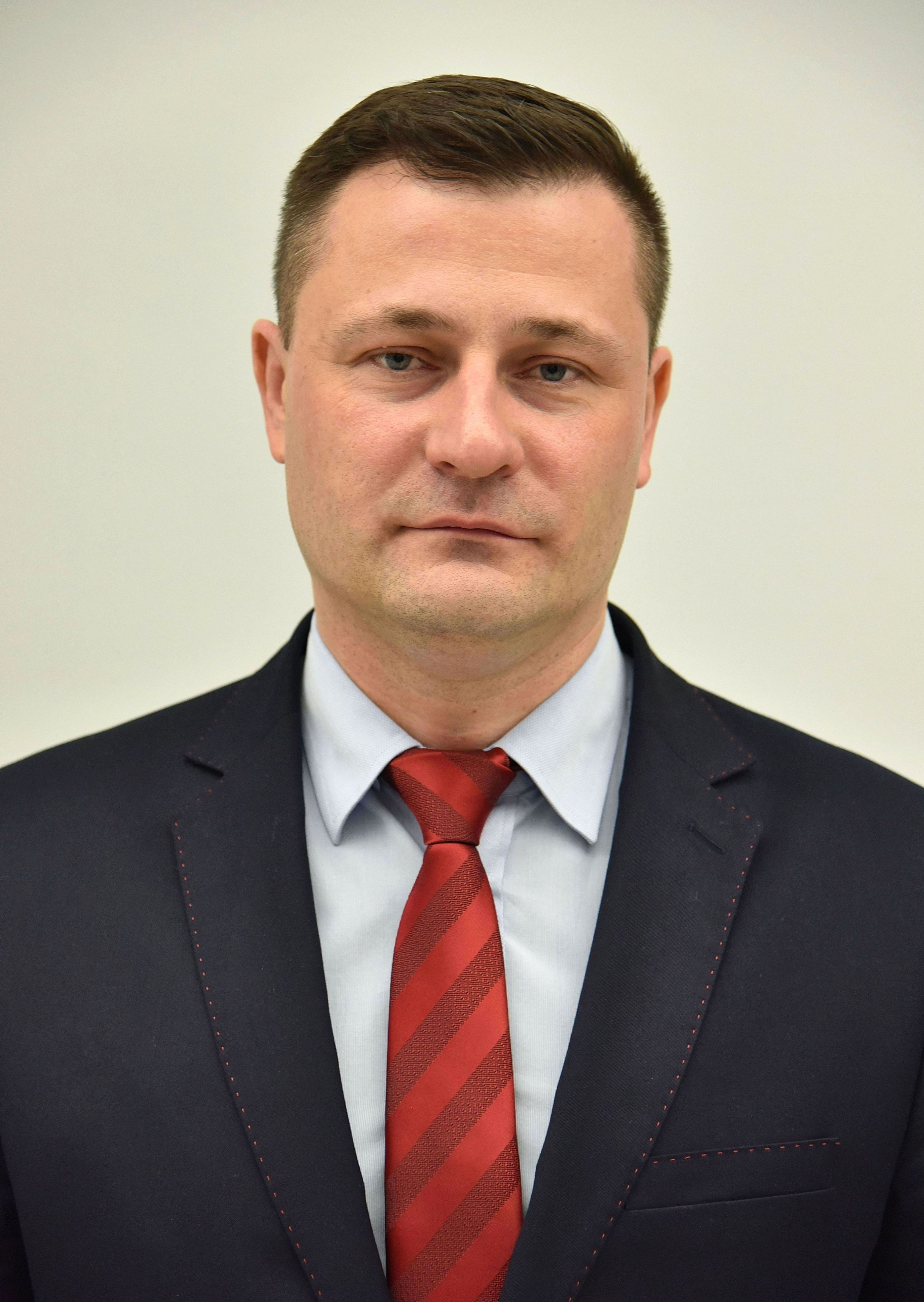 Polish MP Krzysztof Paszyk in the Sejm